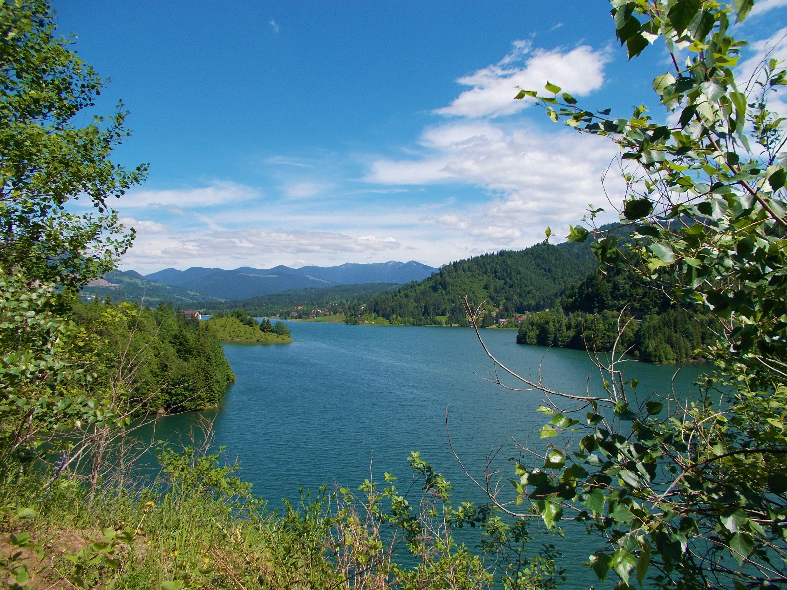 Colibița Lake, Bistrița-Năsăud County, Romania